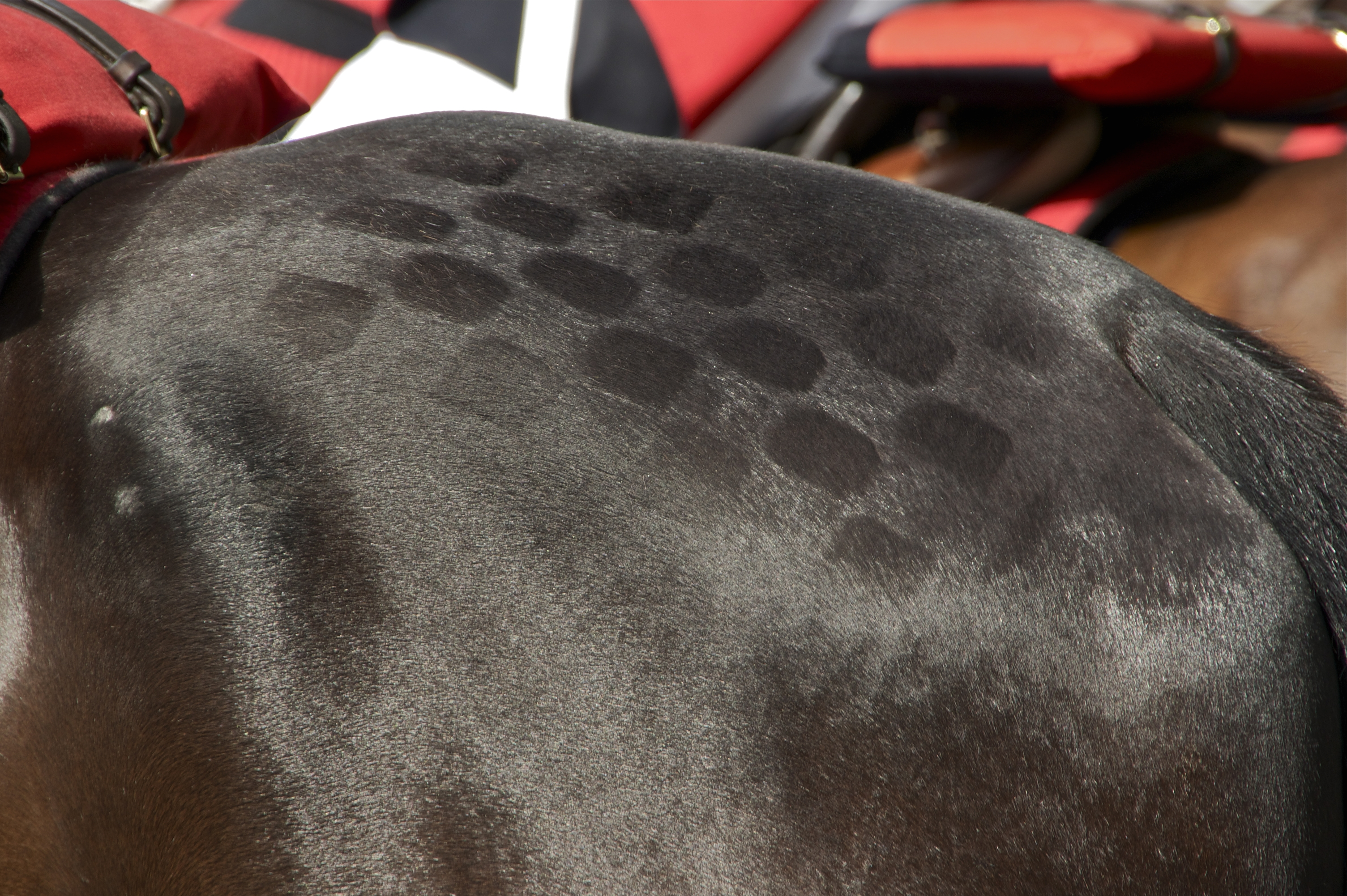 Chessboard pattern (quarter marks) on the rump of a horse of the french Garde Républicaine. Detail.